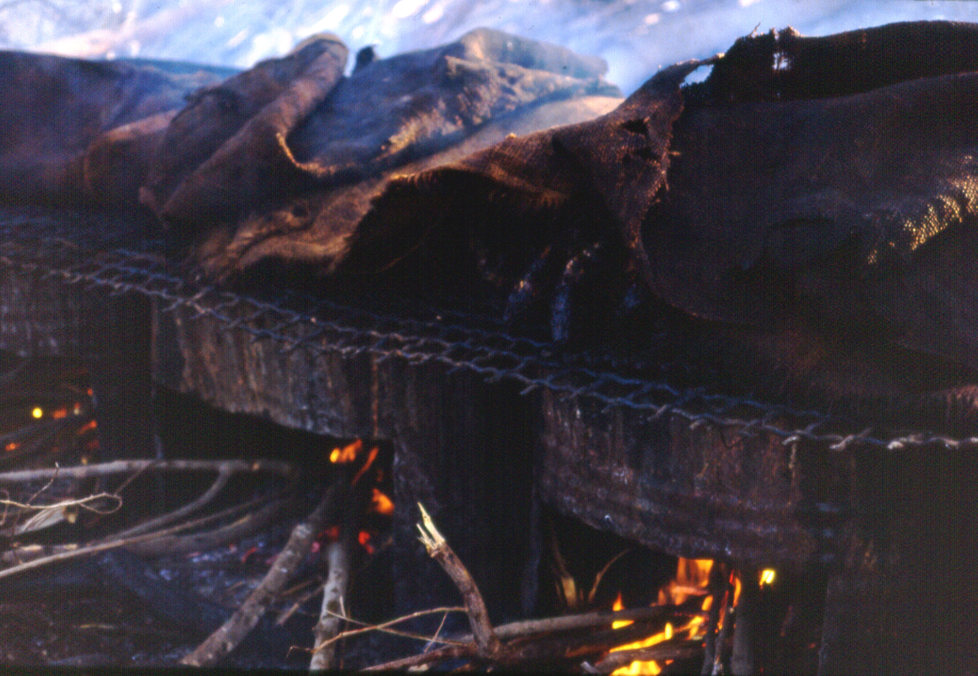 Photo taken on a beach near Dakar on December 25, 1981